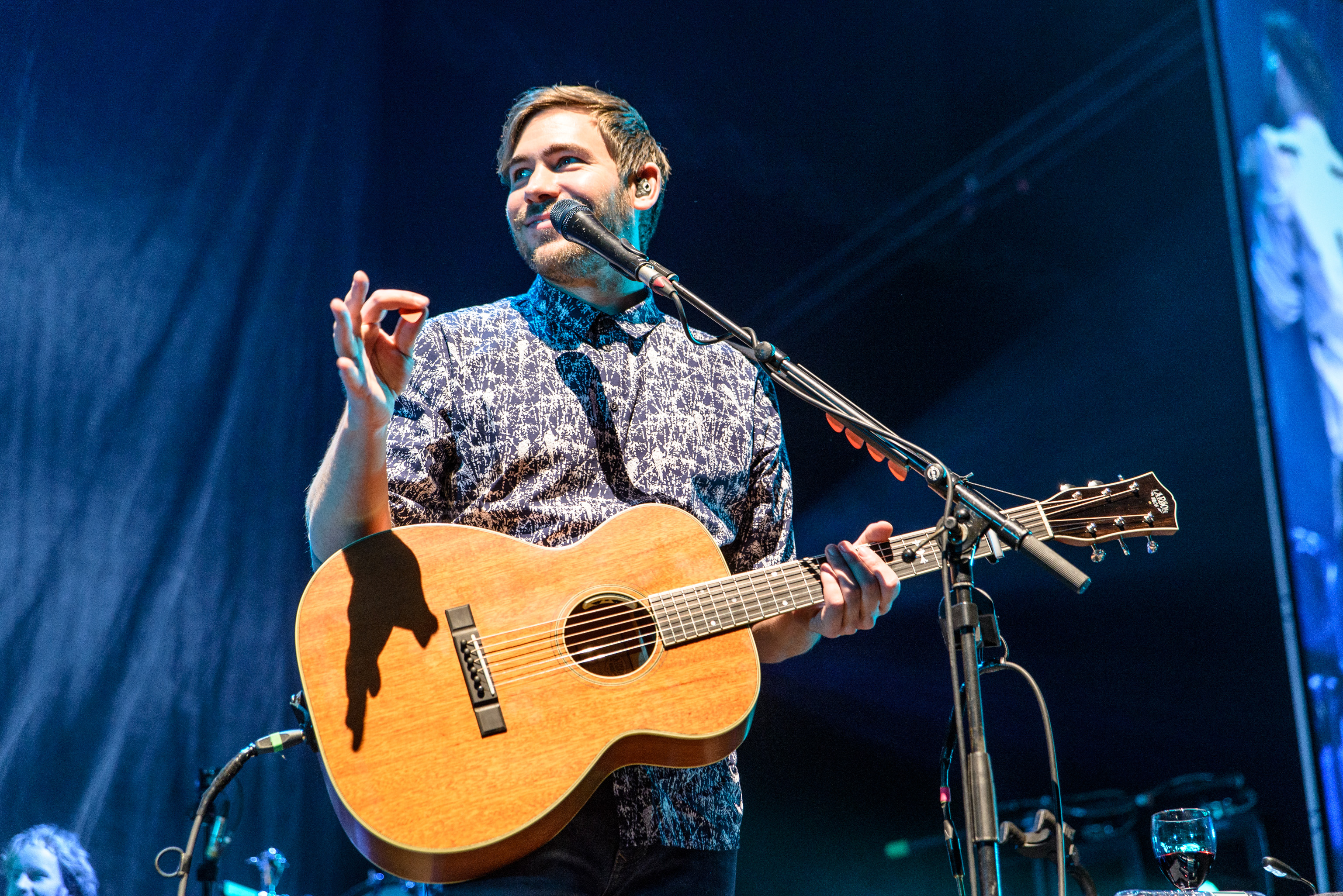 Revolverheld Live @ Munich 2016